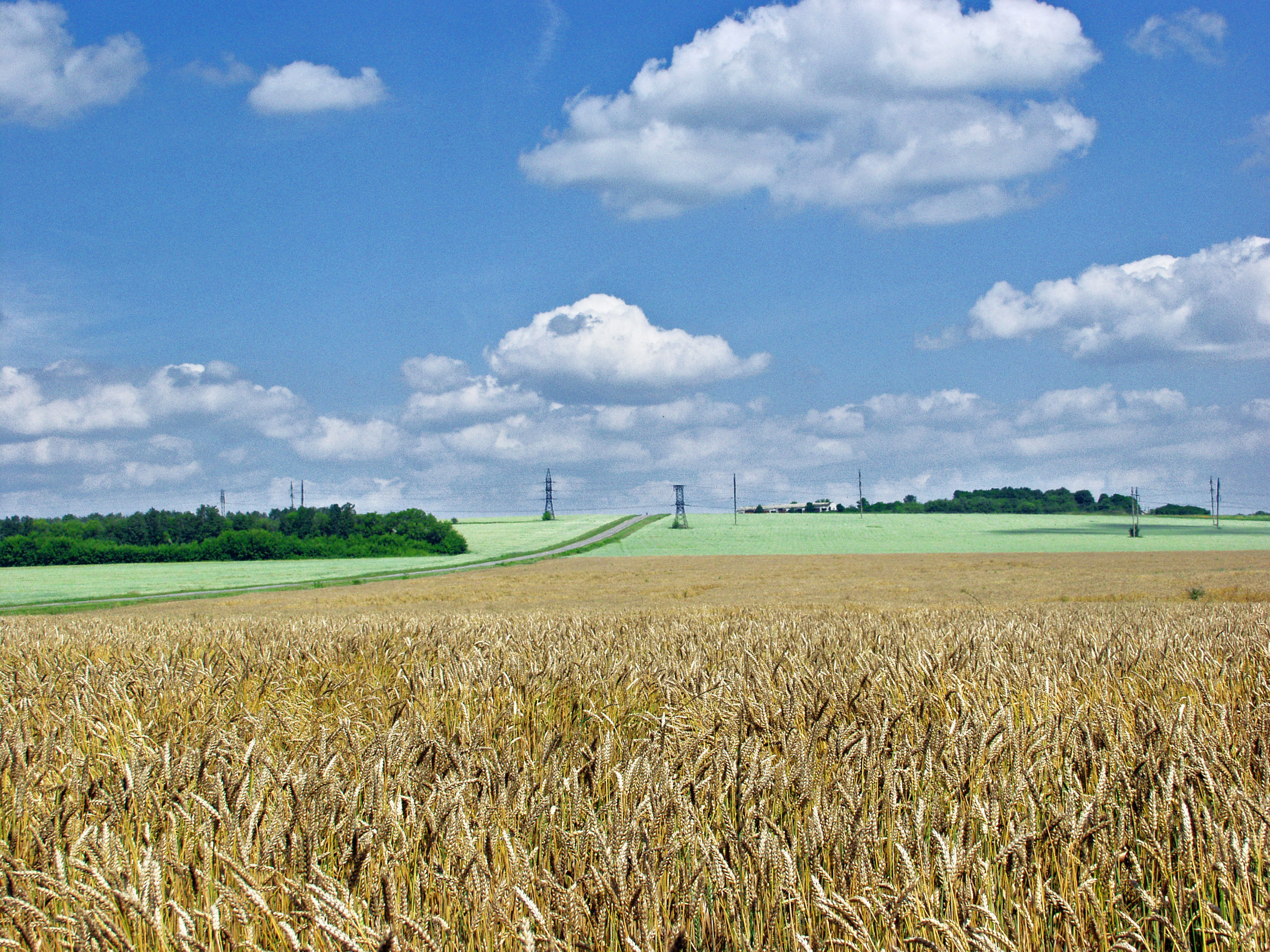 Maturing wheat field (foreground). The nature of the Volgograd Region